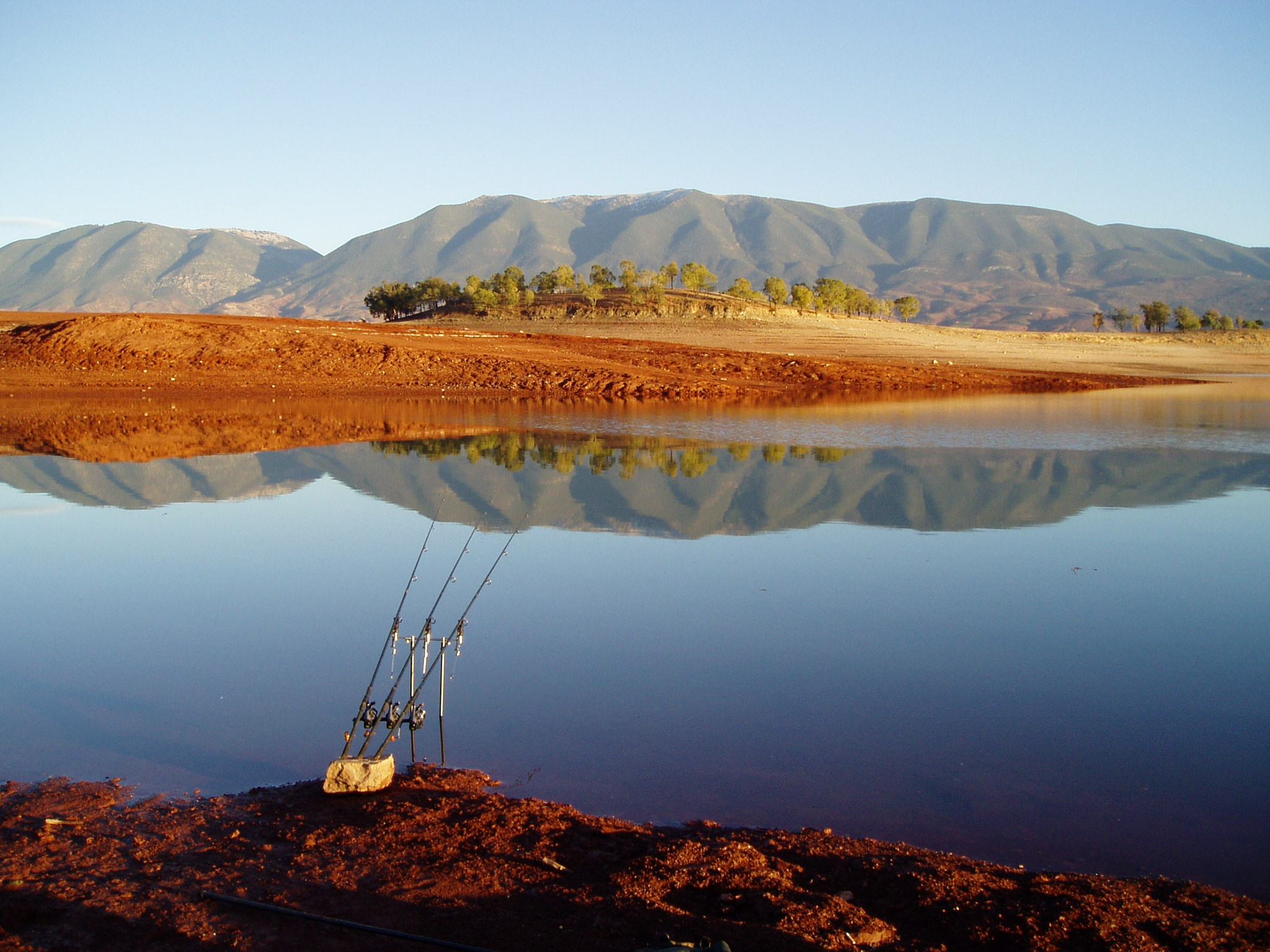 Fishing. Bin el Ouidane lake (Azilal, High Atlas, Morocco).